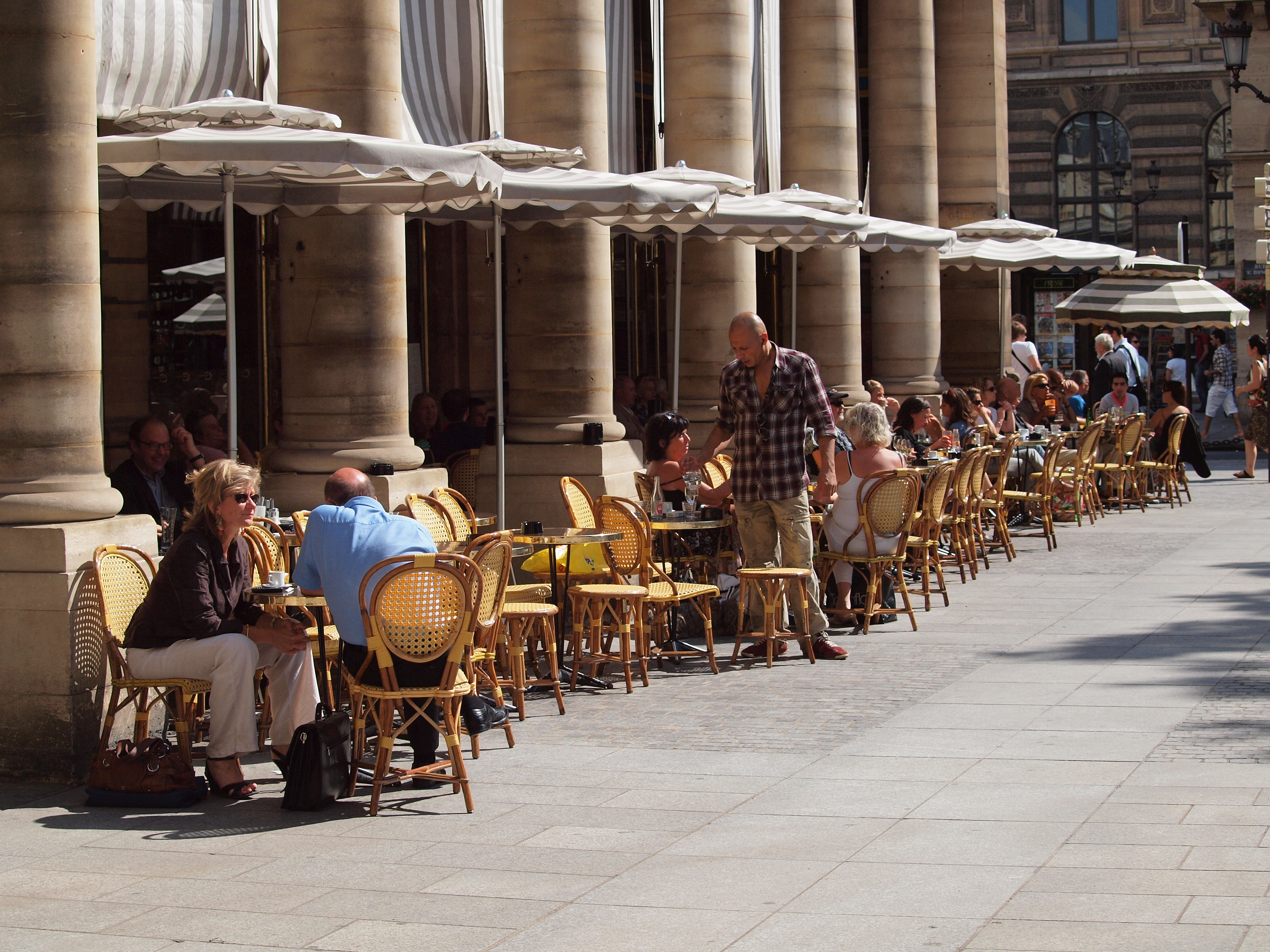 Cafe, Place Colette, Paris.